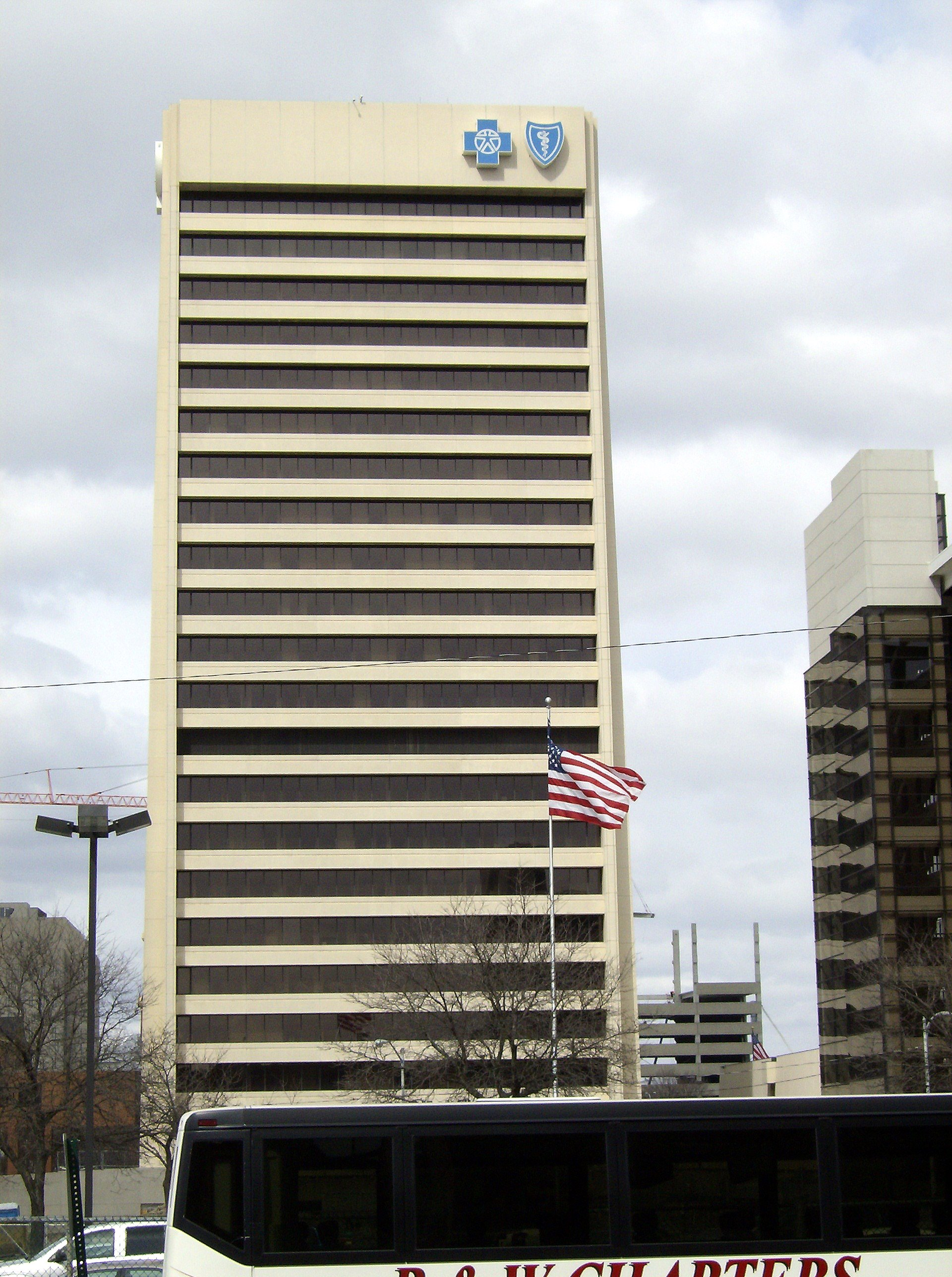 self made Category:Images of Detroit, Michigan